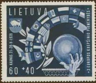 A postage stamp dedicated to the EuroBasket 1939.